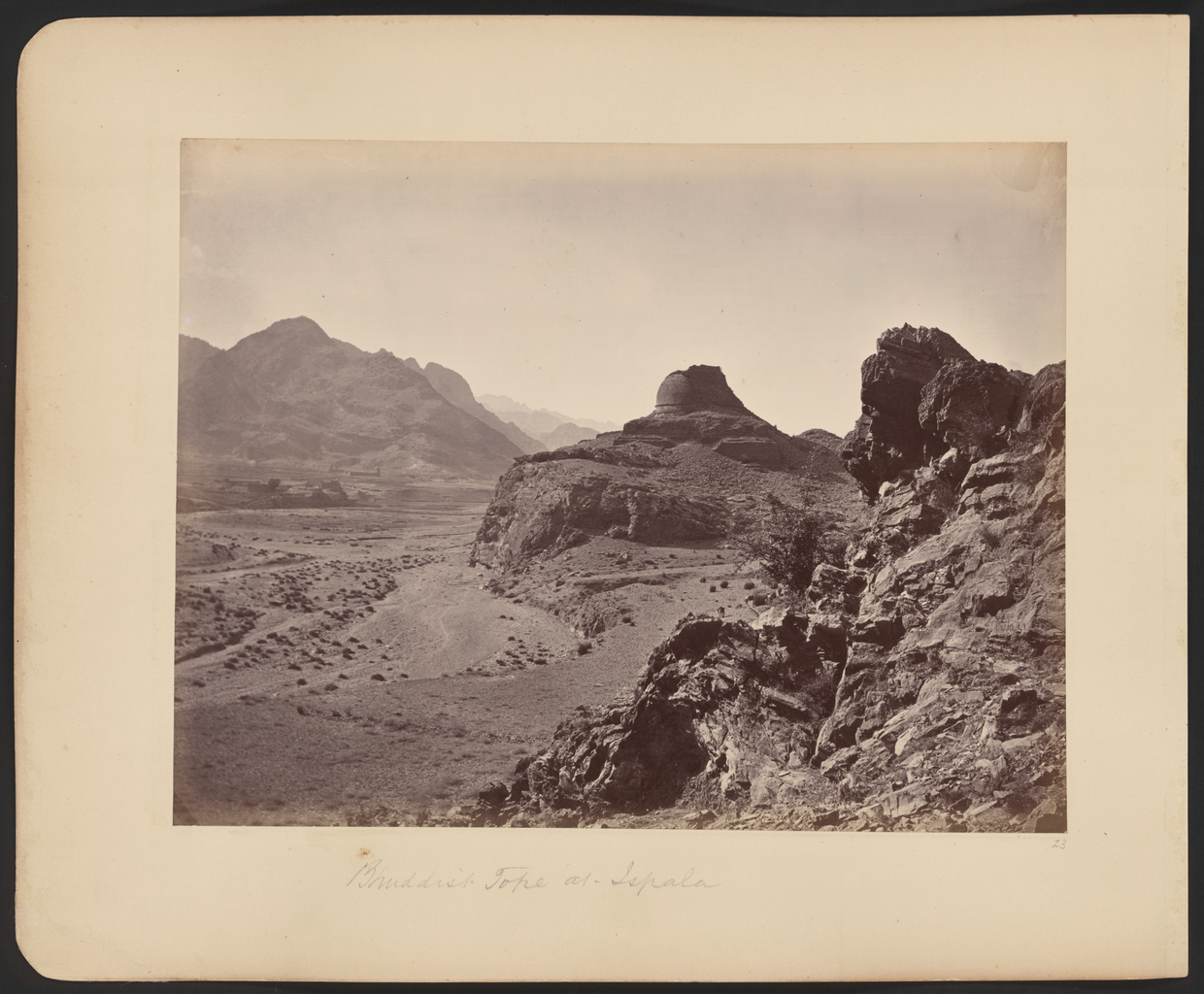 This photograph of the Buddhist tope (stupa) above the Afghan village of Sphola, about 25 kilometers from Jamrūd, is from an album of rare historical photographs depicting people and places associated with the Second Anglo-Afghan War. This ruined stupa features a dome resting upon a three-tiered base. Sphola sits in a ravine located midway between Ali Masjid and Landi Kotal in the Khyber Pass. The stupa may have been constructed towards the end of the Kushan Empire or soon after (third to fifth centuries). It is the most complete Buddhist monument in the Khyber Pass. The Second Anglo-Afghan War began in November 1878 when Great Britain, fearful of what it saw as growing Russian influence in Afghanistan, invaded the country from British India. The first phase of the war ended in May 1879 with the Treaty of Gandamak, which permitted the Afghans to maintain internal sovereignty but forced them to cede control over their foreign policy to the British. Fighting resumed in September 1879 after an anti-British uprising in Kabul, and finally concluded in September 1880 with the decisive Battle of Kandahar. The album includes portraits of British and Afghan leaders and military personnel, portraits of ordinary Afghan people, and depictions of British military camps and activities, structures, landscapes, and cities and towns. The sites shown are all located within the borders of present-day Afghanistan or Pakistan (a part of British India at the time). About a third of the photographs were taken by John Burke (circa 1843–1900), another third by Sir Benjamin Simpson (1831–1923), and the remainder by several other photographers. Some of the photographs are unattributed. The album possibly was compiled by a member of the British Indian government, but this has not been confirmed. How it came to the Library of Congress is not known. Afghan Wars; Khyber Pass (Afghanistan and Pakistan); Mountain passes; Mountains; Ruins; Stūpas; Temples, Buddhist